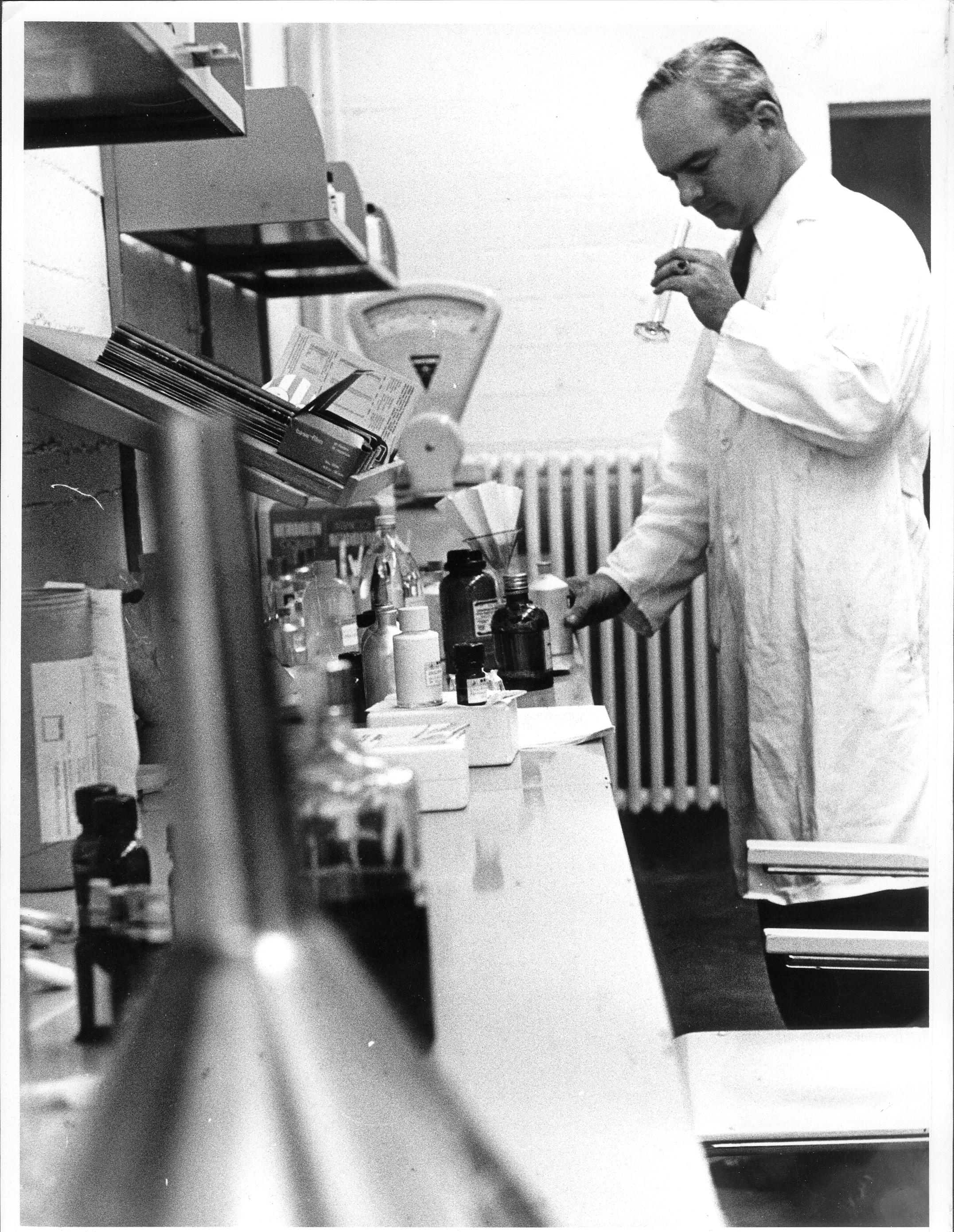 Johann Maria Farina in the fragrance laboratory